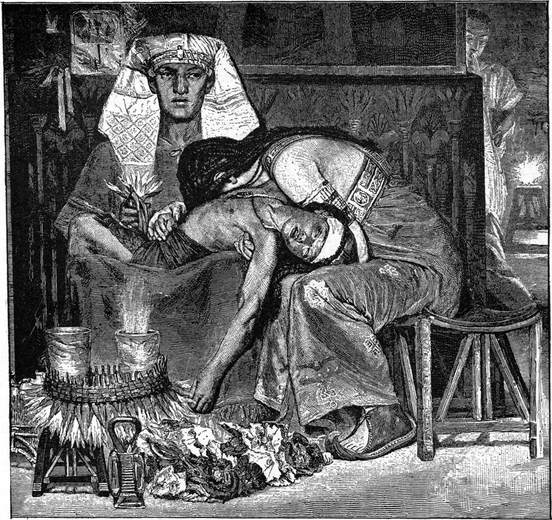 The Death of the Firstborn. Caption: "This is the house of an Egyptian. How different it is from the house of the Israelites. The angel has been here. But when he saw there were no marks of blood on the door he did not pass over it. The angel went into all the houses of the Egyptians and caused their oldest sons to die. God sent him to do this so Pharaoh would let the Israelites go away from Egypt." Illustration from the 1897 Bible Pictures and What They Teach Us: Containing 400 Illustrations from the Old and New Testaments: With brief descriptions by Charles Foster